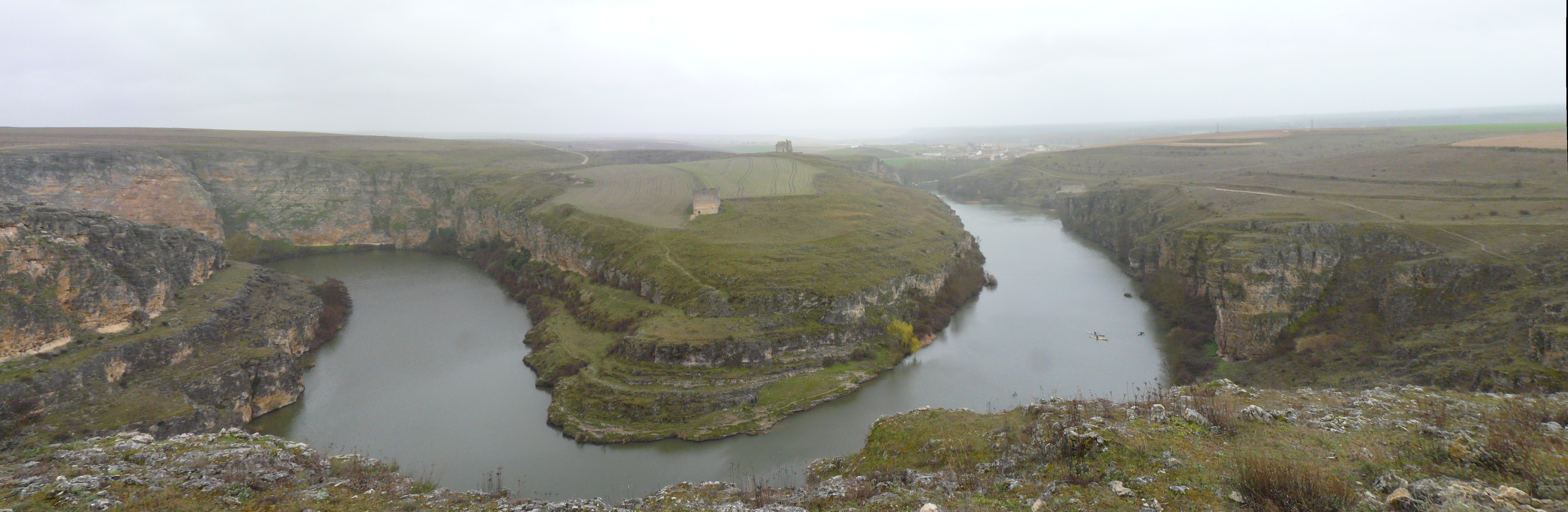 Duratón river, near San Miguel de Bernuy (province of Segovia, Castile and León, Spain).